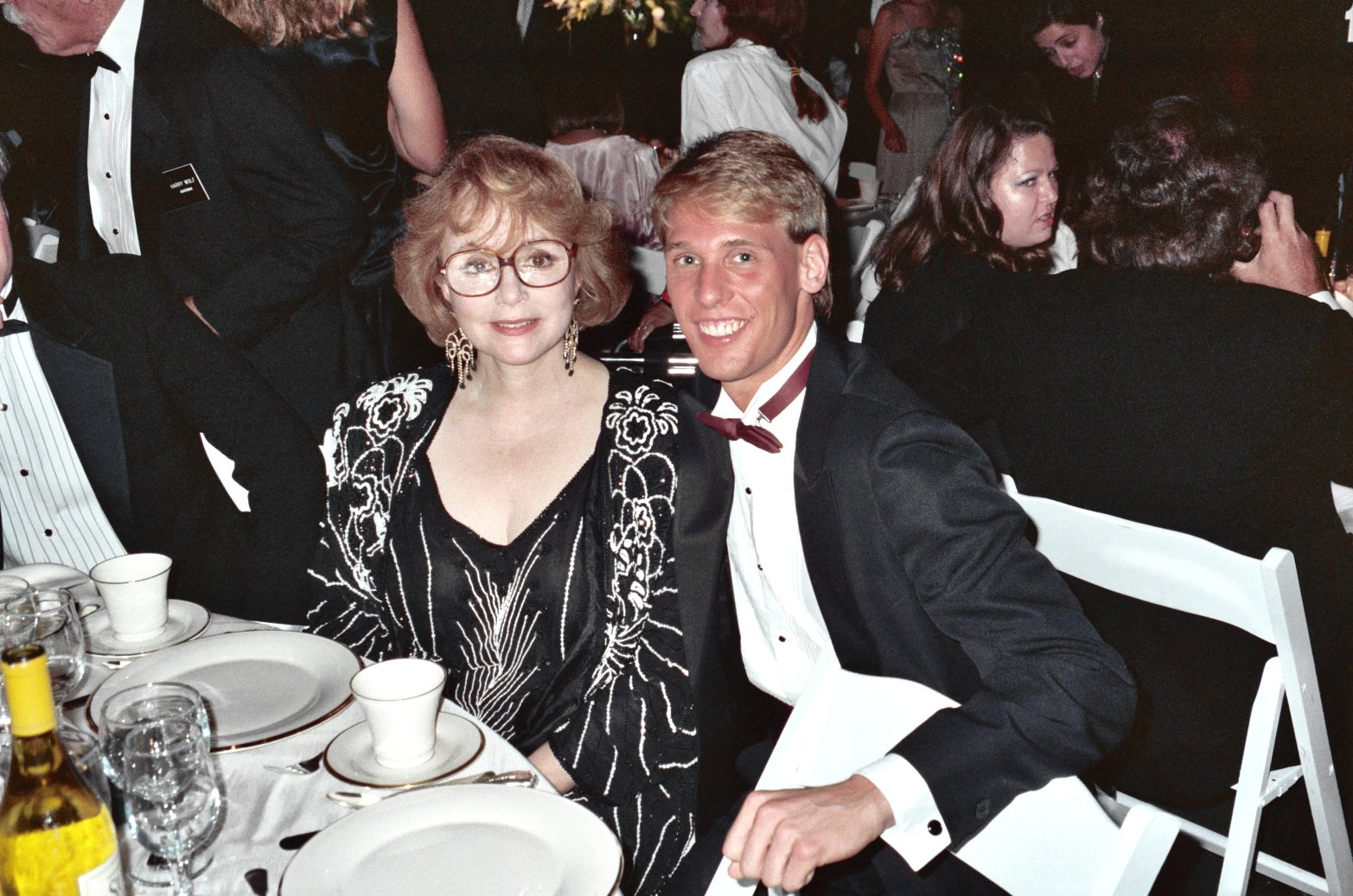 1990 Emmy Awards NOTE: Permission granted to copy, publish, broadcast or post any of my photos, but please credit "photo by Alan Light" if you can. Thanks. Scanned from the original 35MM film negative.